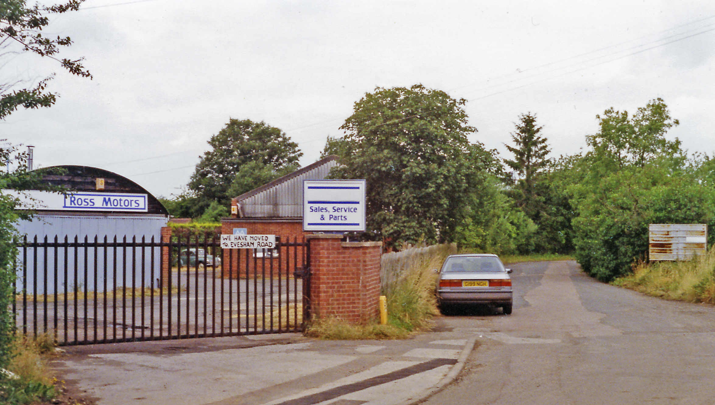 Site of Alcester station, 1994. View westward across the former railway. The station had [probably?] been on the left. The line was the ex-Midland (Birmingham) - Barnt Green - Redditch - Evesham - Ashchurch, closed between Redditch and Evesham 1/10/62 (goods 6/7/64); until 1/3/51 an ex-GW branch had joined here from Bearley but had lost its passenger service on 25/9/39.